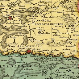 Banat of Temeswar (1718-1770)